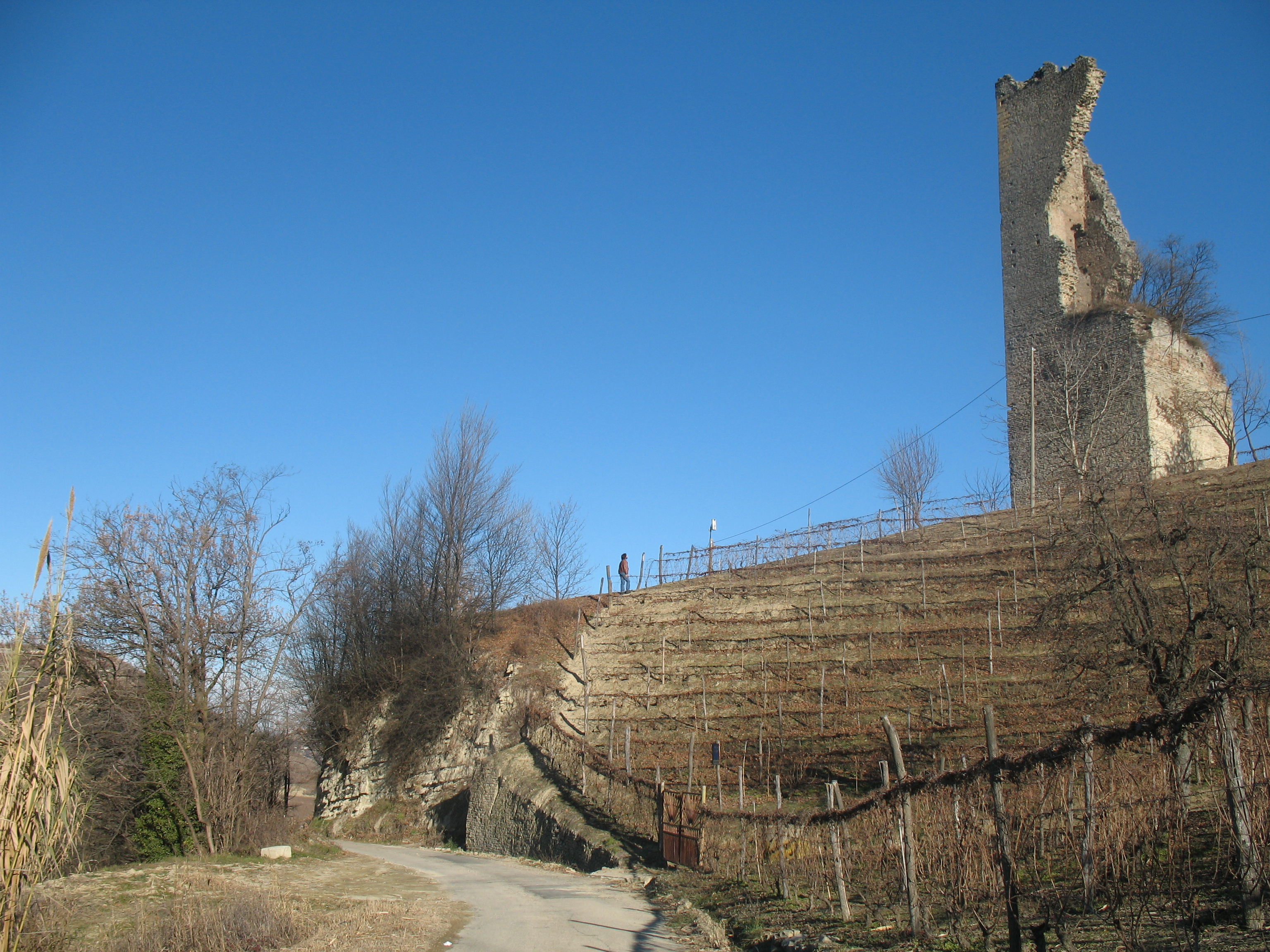 Medieval tower on the top of the hill of S. Libera in Santo Stefano Belbo, Piedmont, Italy.